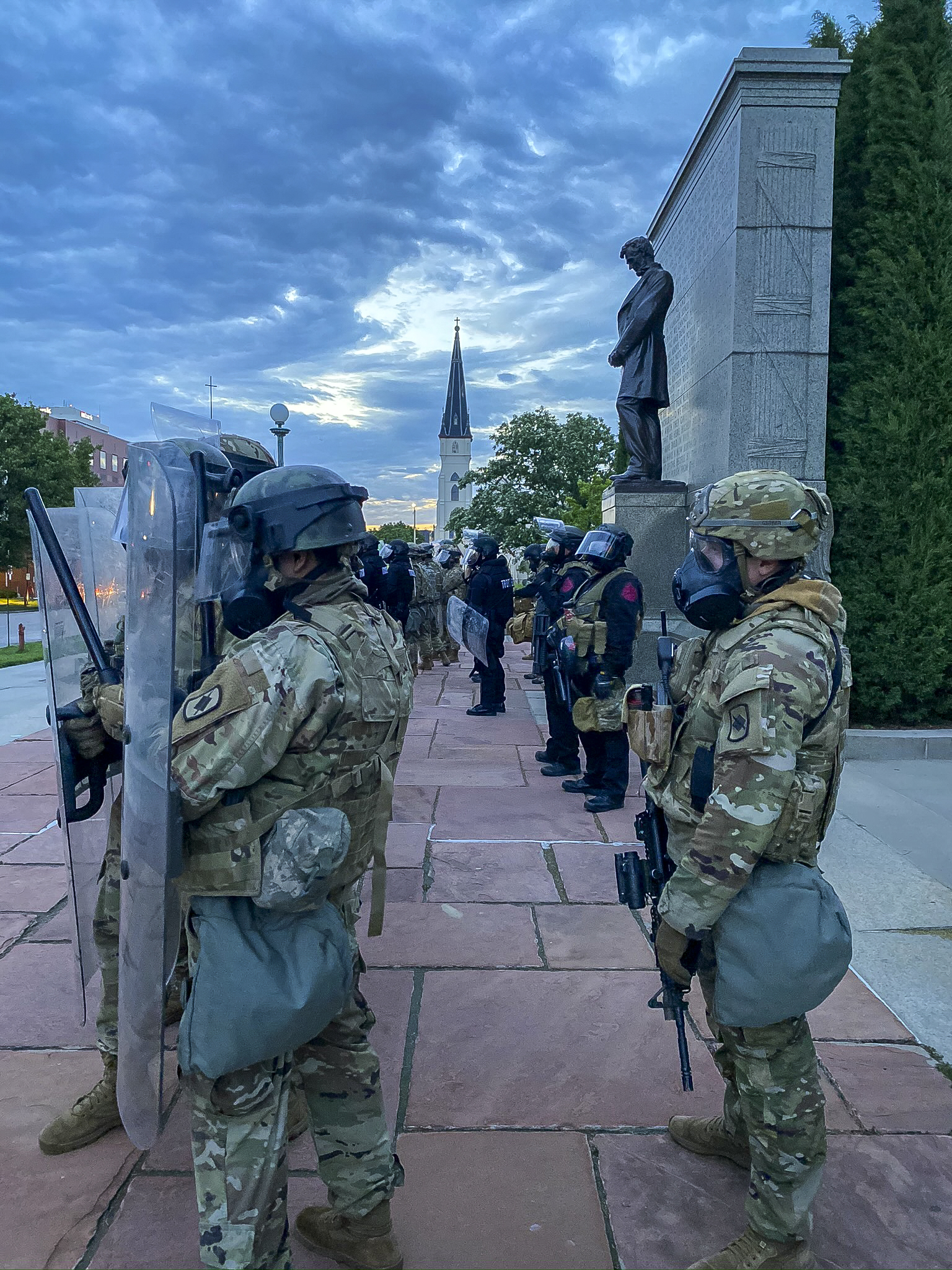 Nebraska National Guard Soldiers with Troop B, 1-134th Cavalry Squadron, stand shoulder-to-shoulder with Nebraska State Patrol Troopers, May 31, 2020, outside the Nebraska State Capitol in Lincoln, Nebraska. The National Guard Soldiers was activated to support civil authorities in protecting property and ensuring the safety of Nebraskans participating lawfully in peaceful demonstrations. (Nebraska National Guard photo by Maj. Scott Ingalsbe)